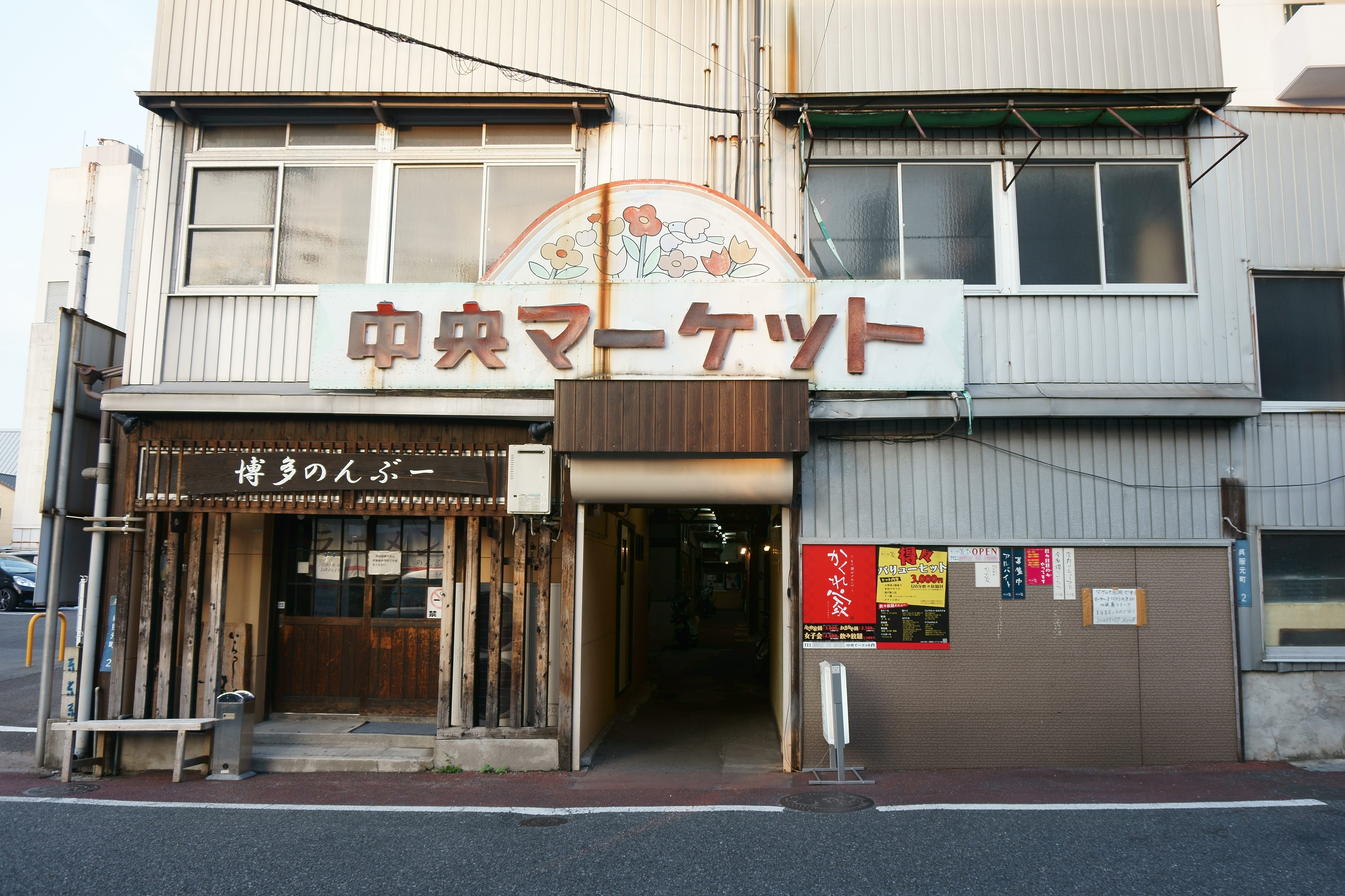 Shopstreet "Chūō Market" in Gofuku-motomachi, Saga city, Saga prefecture.